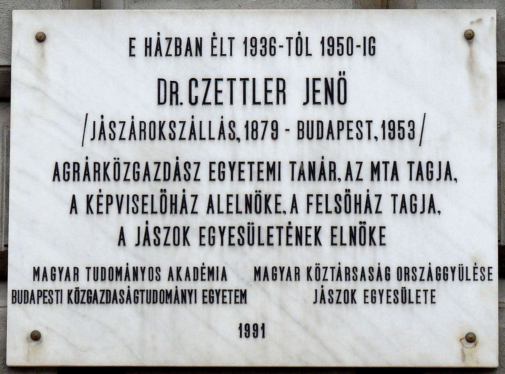 Commemorative plaque to Mr. Jenő Czettler (1879-1954) Hungarian economist and agrarian politician. It is affixed on the wall of his former home where he lived and worked between 1936 and 1950. (Budapest, District VI, Andrássy Avenue Nr 85)